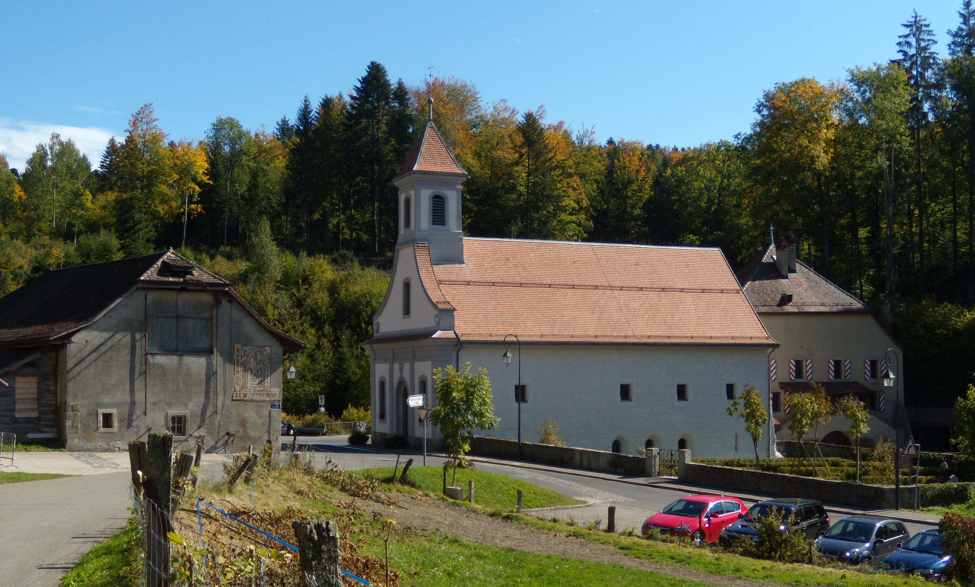 Abbeye of Montheron, Switzerland